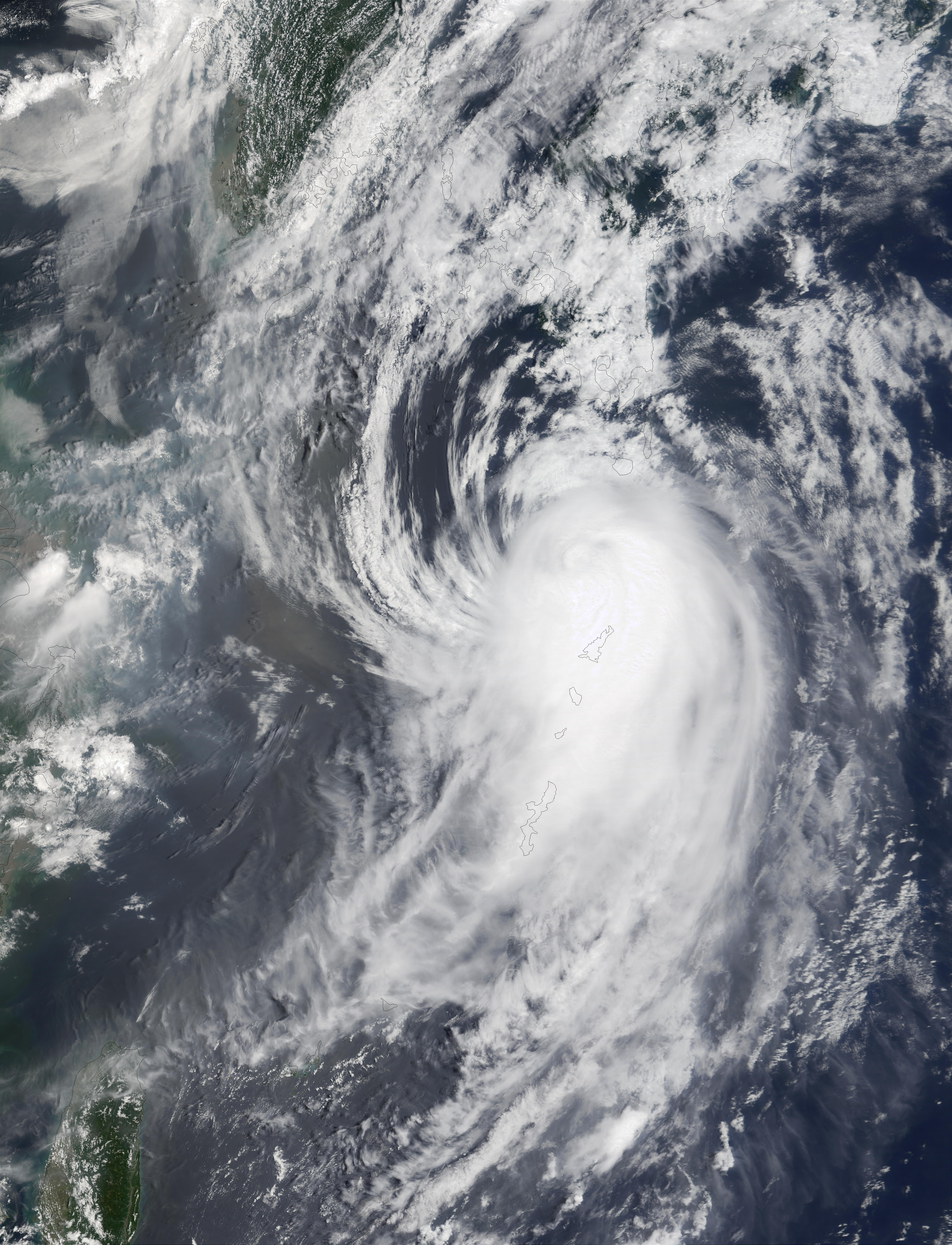 On July 15, 2002, Super Typhoon Halong was south of Japan (top edge) in the western Pacific Ocean. Over the past twenty four hours, the typhoon skirted eastern Japan, injuring 9 people and cutting off power to thousands. The storm fizzled out just east of the northern island of Sapporo. As recently as Sunday, this Category 4 hurricane was packing maximum sustained winds of 115 knots (132 miles per hour). This image was acquired by the Moderate Resolution Imaging Spectroradiometer (MODIS) on the Terra satellite on July 15, 2002.